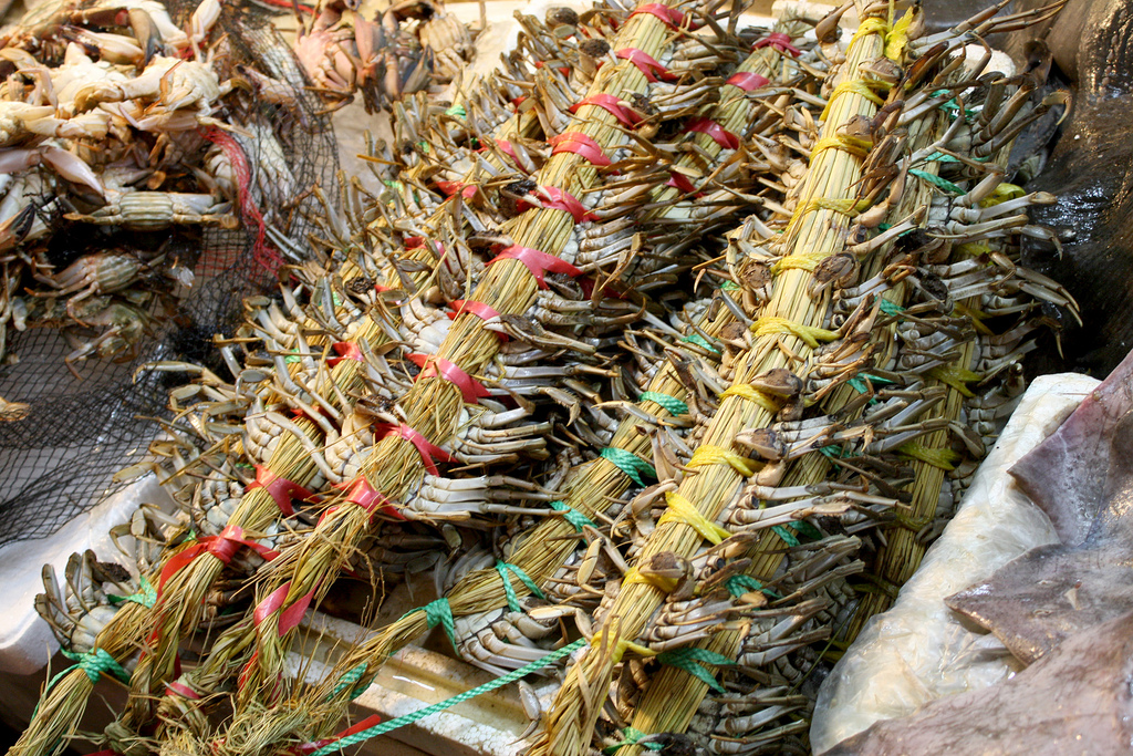 I had to get a photo of these crab bundles. I am not sure what they are tied to, or what kind of crab they are, but really thought it was a bit different from what i have seen in the states. The thing that really caught my attention was...that they were moving. HA, yeah, the legs of the crabs were still moving.... they were alive.